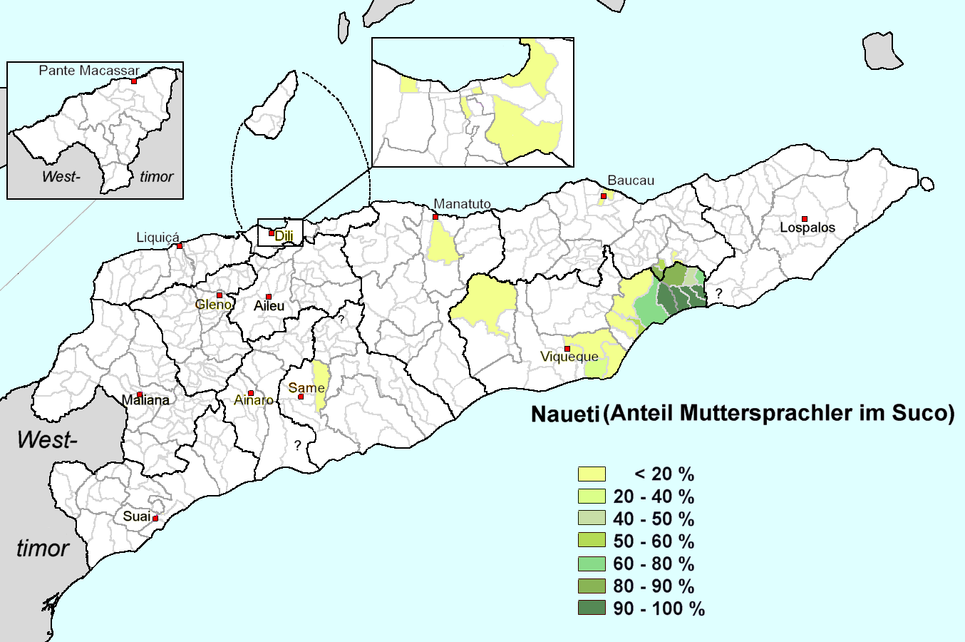 Percentage of people using Naueti as mother tongue in sucos of East Timor (Timor-Leste), according census 2010